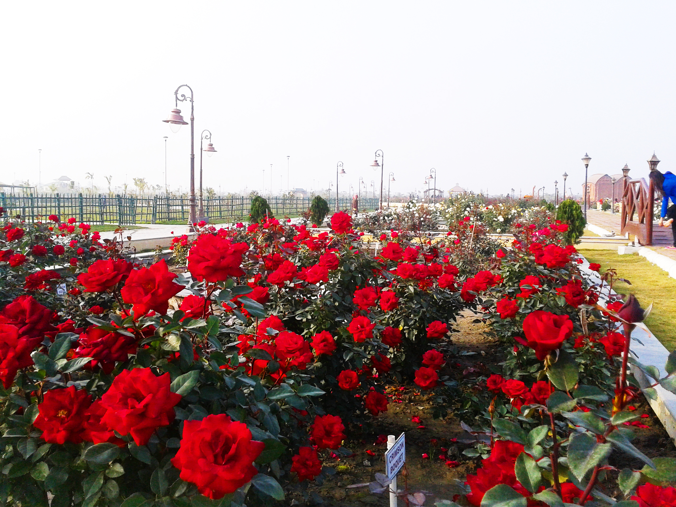 roses blossoming at the park during winter